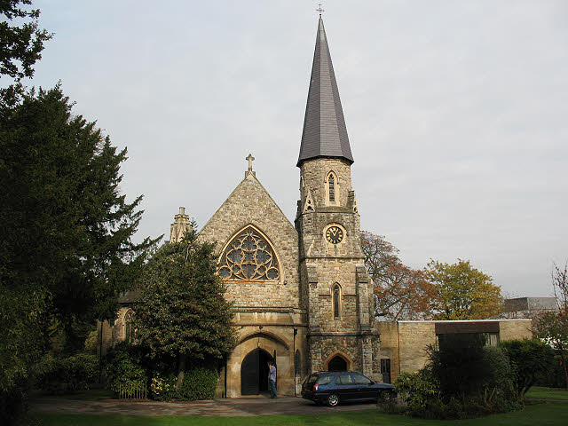 St Margaret's church, Putney: south end The geographical south end of the church is the liturgical west end (entrance). This part of the church dates from 1859; it was then the Grove Baptist Chapel. In 1912 the building was donated to the parish of Putney and became St. Margaret's Church. It later became a parish church in its own right.